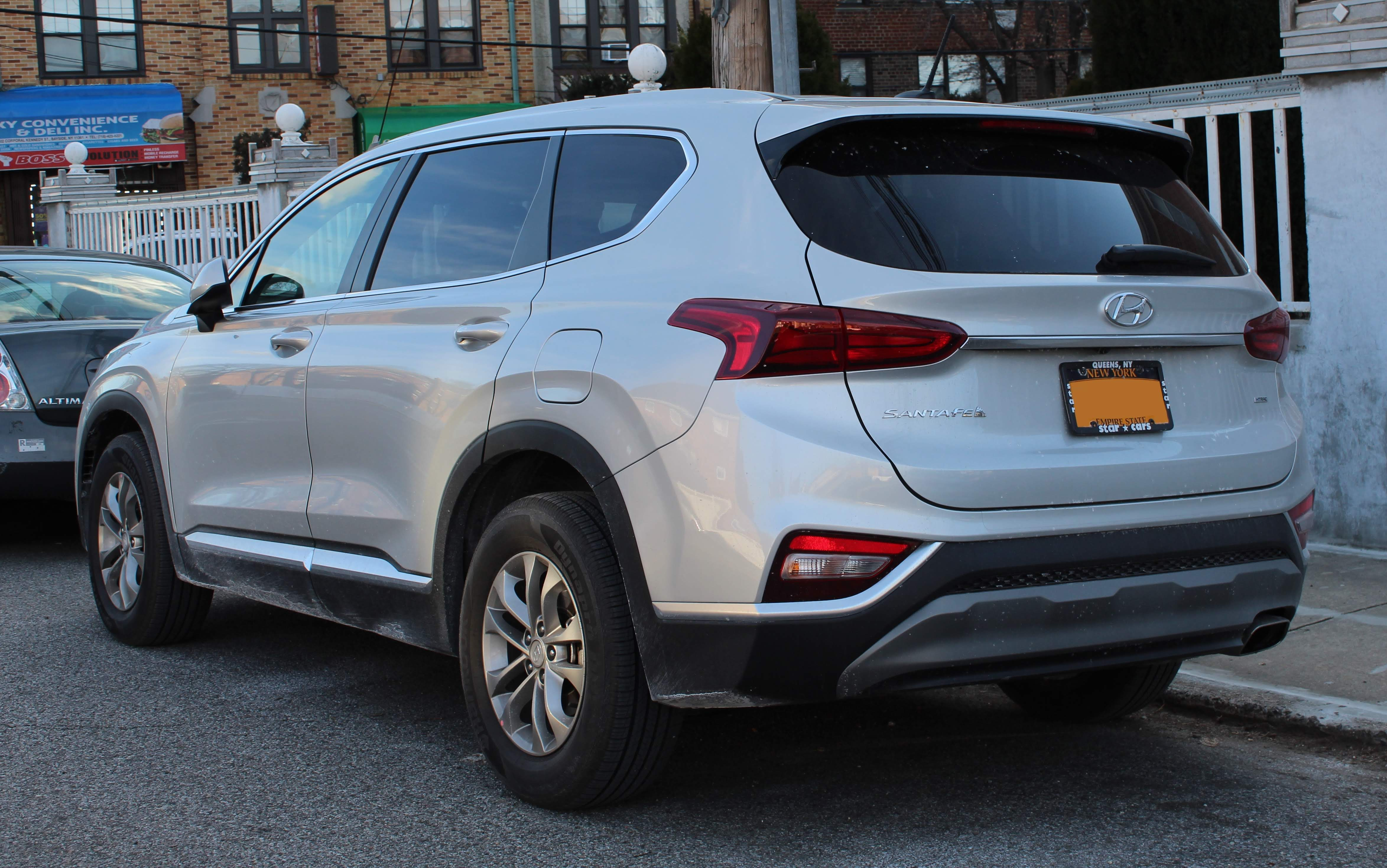 Photographed in Queens, New York, USA